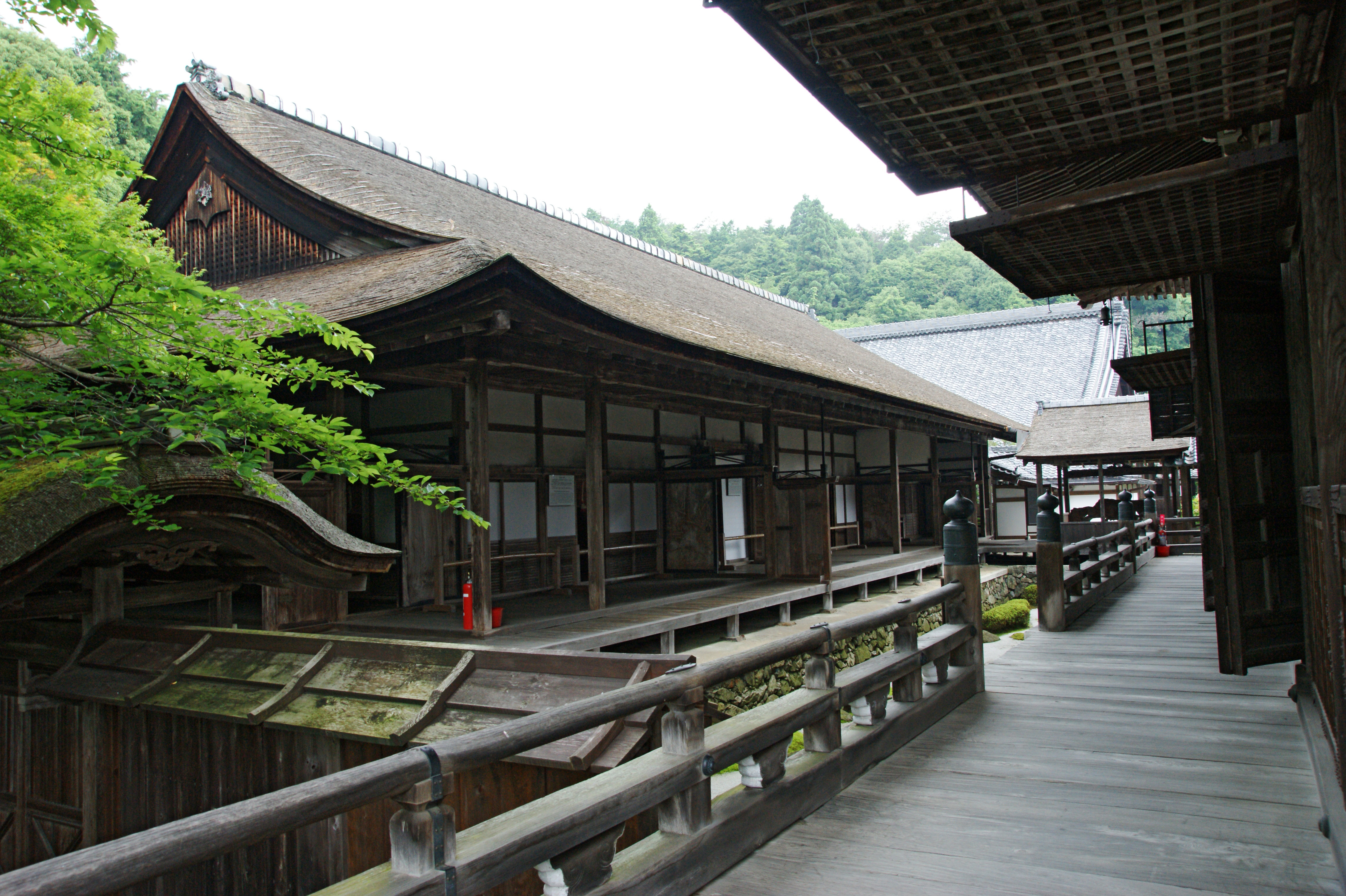 Saikyoji in Sakamoto, Otsu, Shiga prefecture, Japan